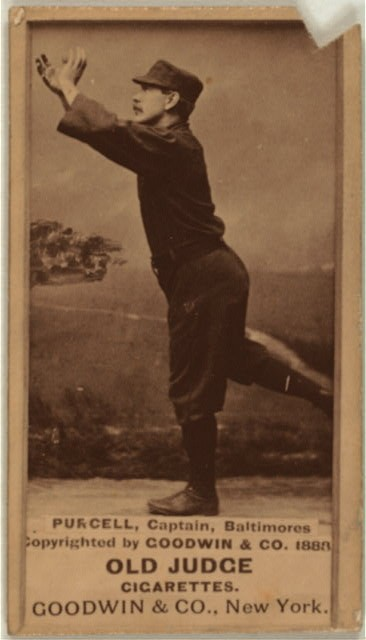 Blondie Purcell, baseball card portrait. Scan of 1887 Old Judge Blondie Purcell #382e.